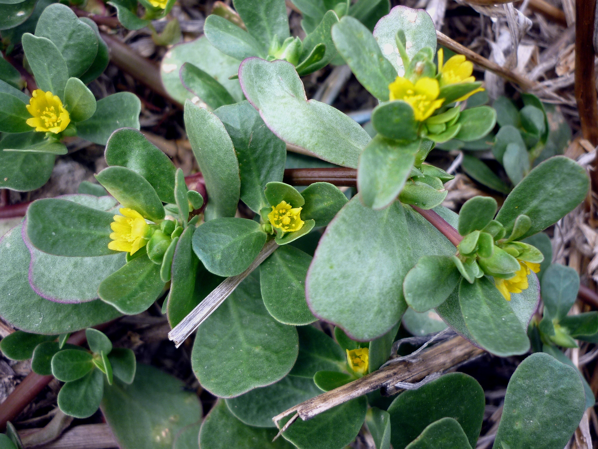 Portulaca oleracea. In Torà (Segarra-Catalunya). To 510 m. altitude